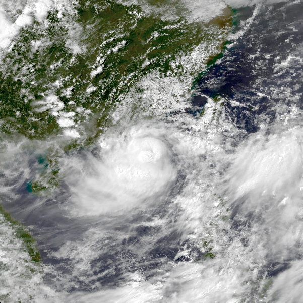 Severe Tropical Storm Wynne on June 24, 1984